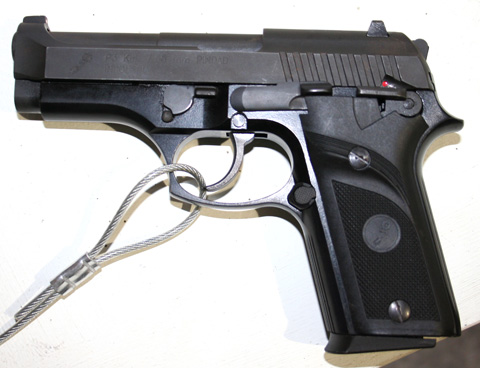 Pindad P3 7.65×17mm semi-automatic pistol, taken at Indo Defence 2008.